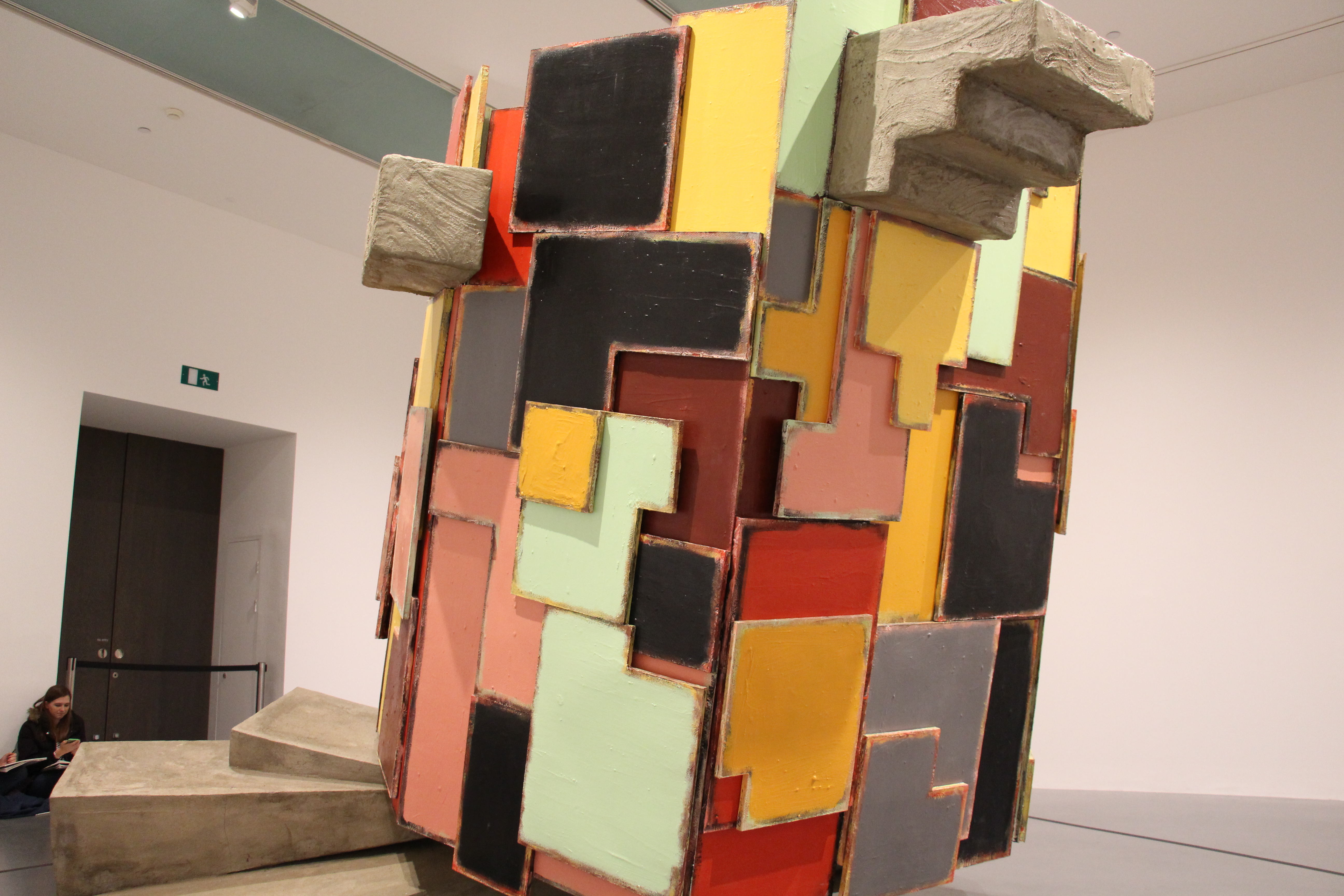 Bankside Untitled: Upturnedhouse, 2 Phyllida Barlow 2012